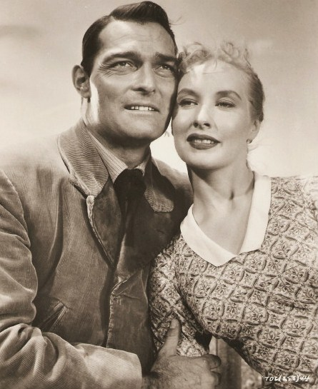 John Russell & Penny Edwards in The Dalton Girls - publicity still (cropped : see source)